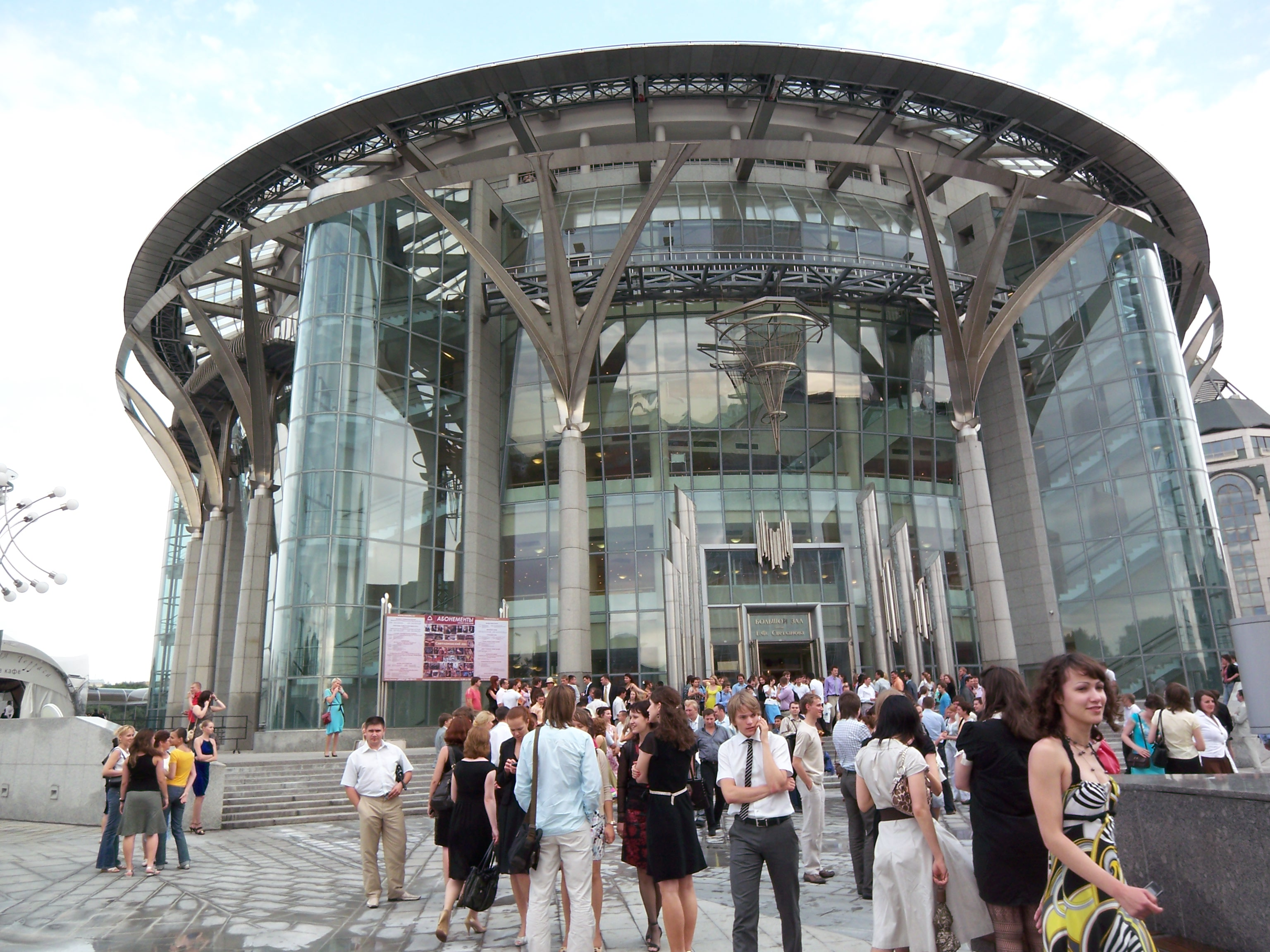 House of Music